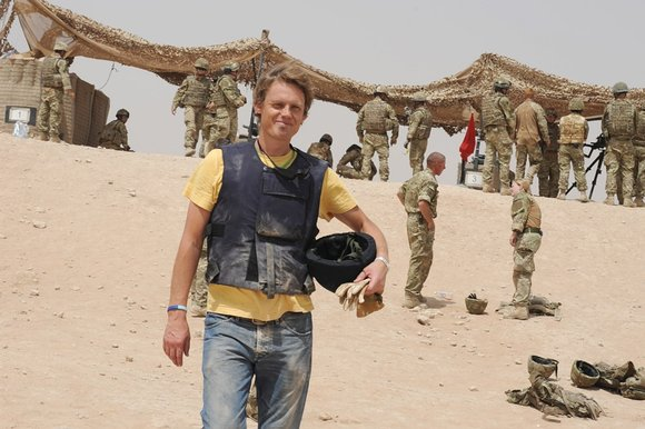 Author Mark de Rond at Bamp Bastion, 2011.